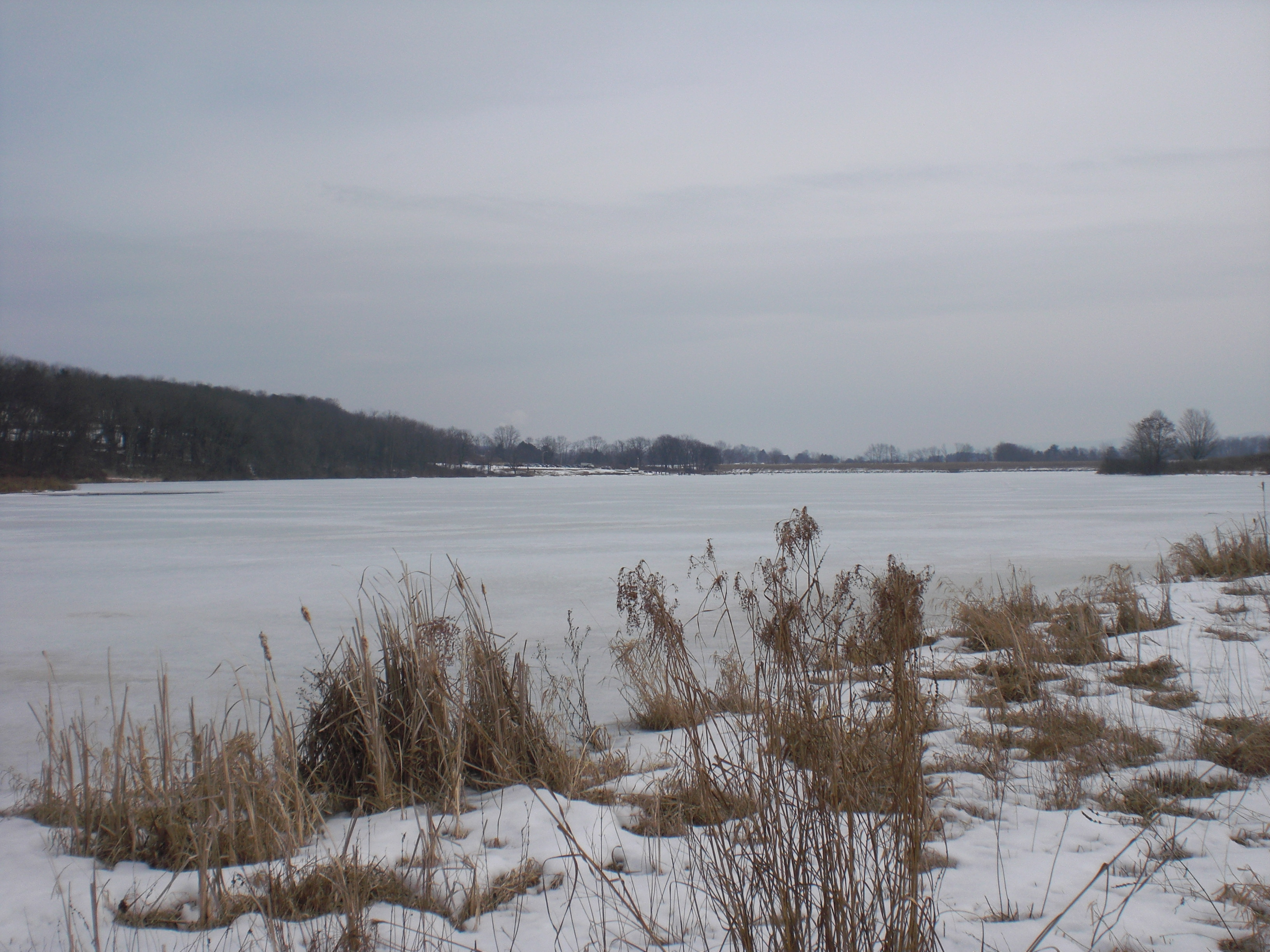 Briar Creek Lake frozen over.